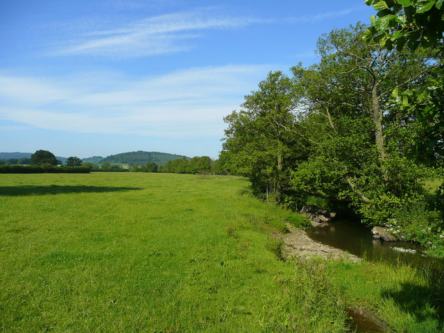 Adleymoor Common Part of the Clun floodplain viewed to the south-west of Jay. The wooded hill in the distance is Coxall Knoll, near Bucknell.